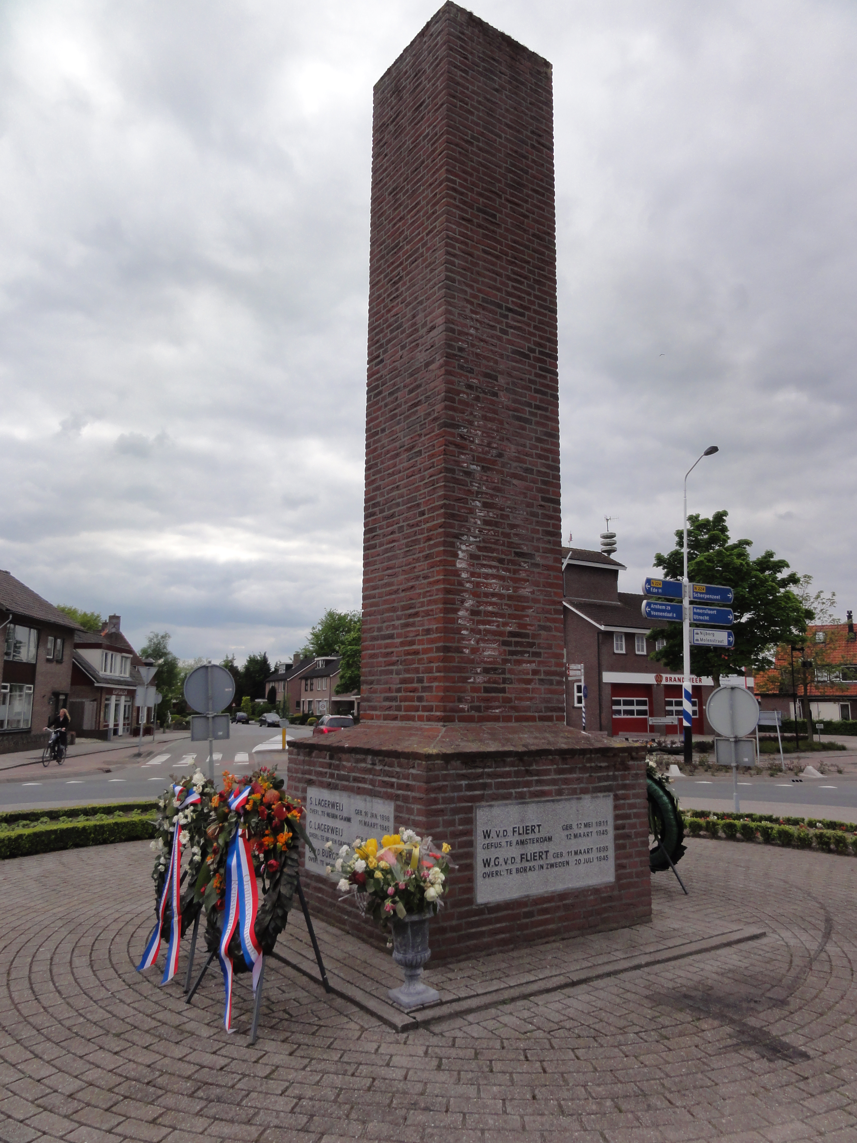 Renswoude, World War II memorial, sides 3-4